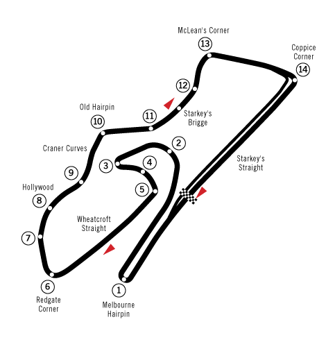 Doningtonpark circuit (pre 2010)